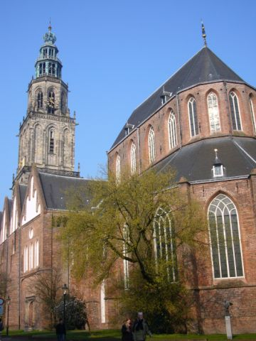 Martinikerk Groningen